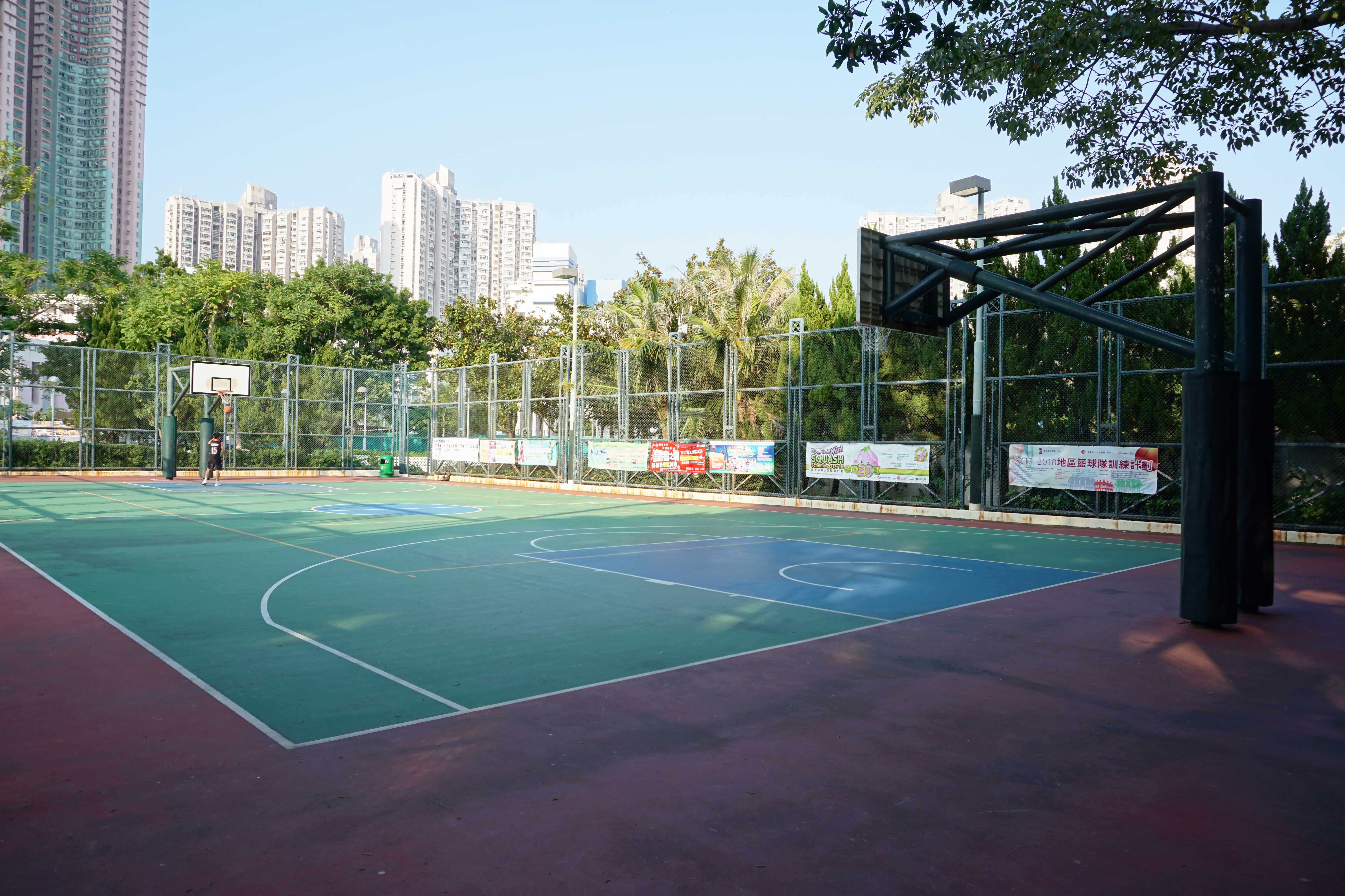 Po Hong Park in Po Lam, Hong Kong.